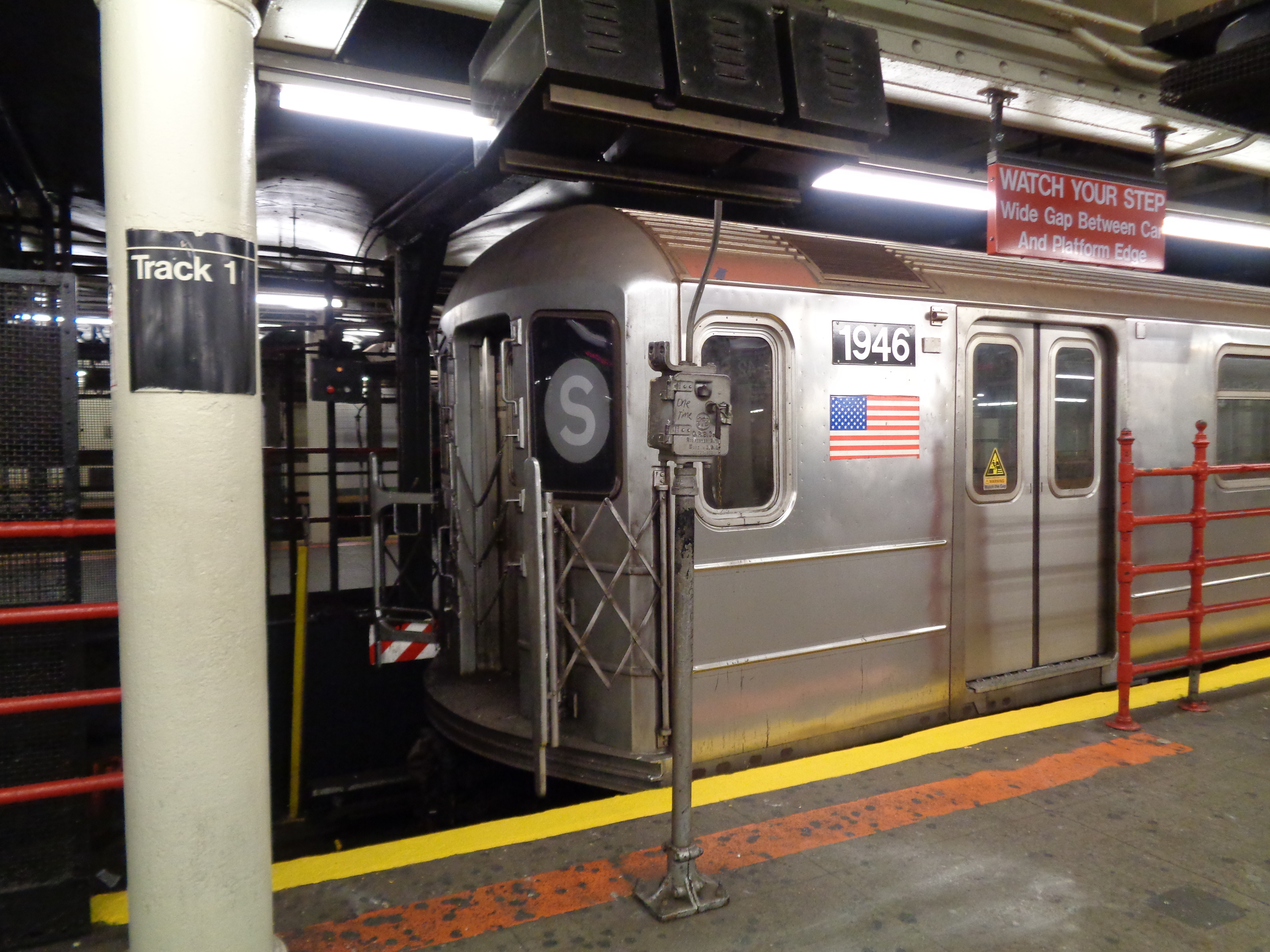 Looking at track 1 of the 42nd Street Shuttle station, the former downtown/eastbound local platform, at the Times Square–42nd Street subway station in Times Square, Manhattan.